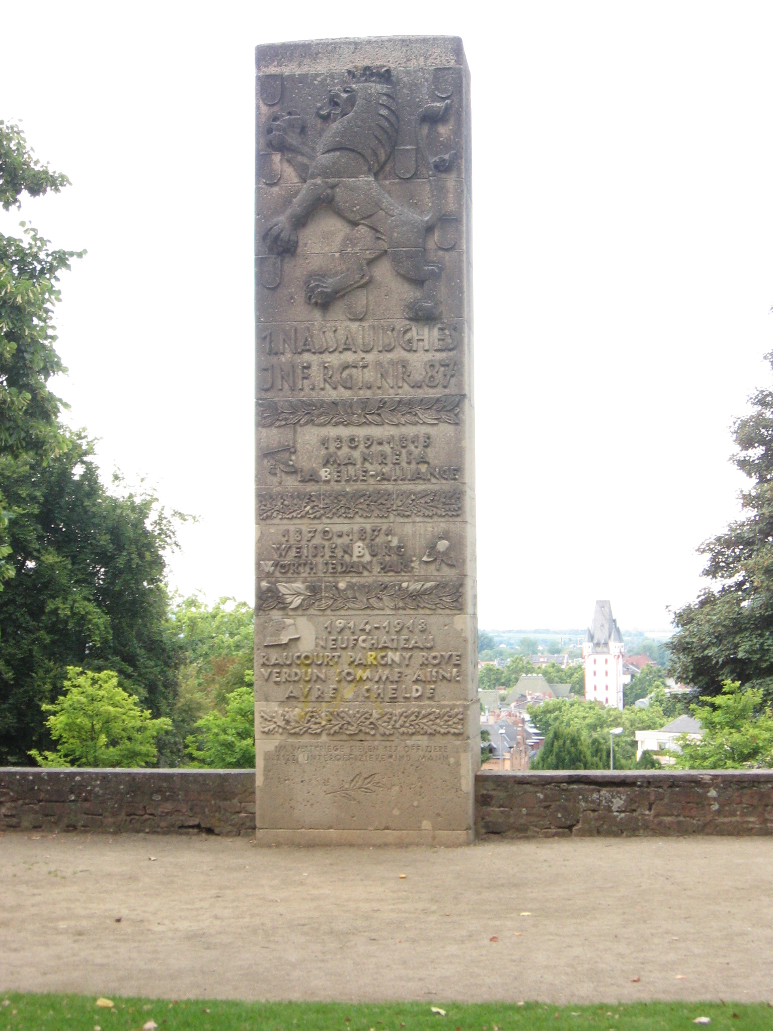 Memorial for the 1. Nassauisches Infanterie-Regiment Nr. 87 in Mainz